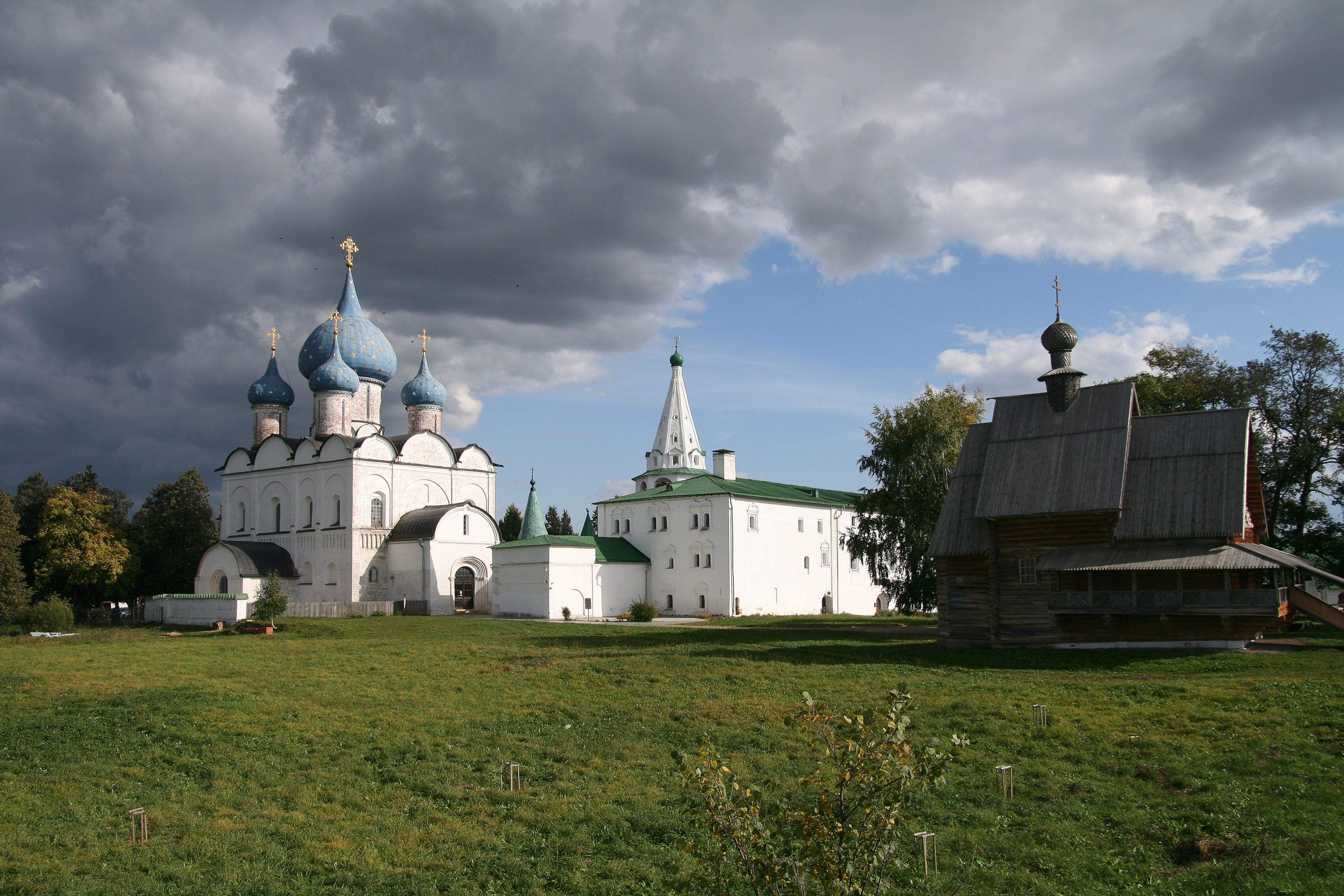 Suzdal Kremlin